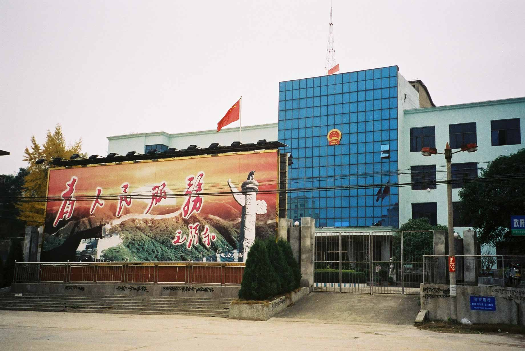 Photo taken by myself (Frank Feather) in December 2003. This is a photo of Qichun City Hall, which stands at the end of City Street, looking down that street. It bears the shield of the Communist Party of China.